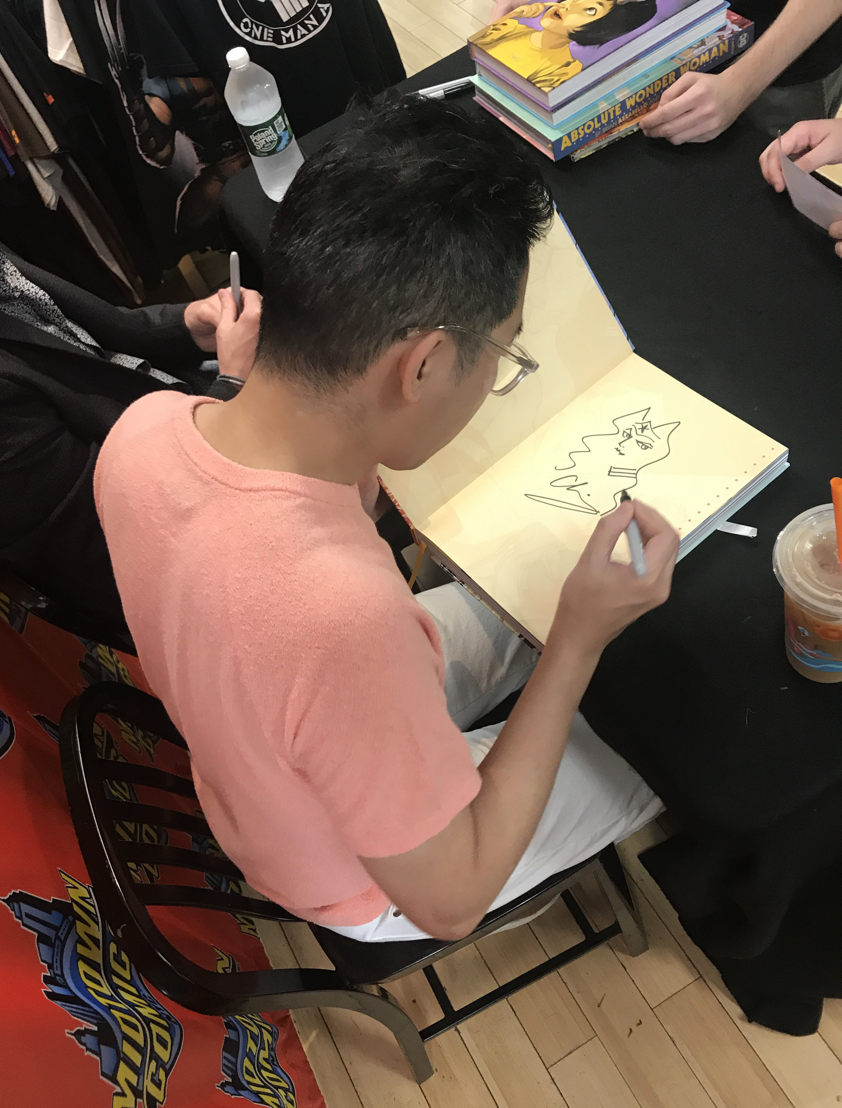 Comics artist Cliff Chiang at an August 1, 2019 book signing for Paper Girls #30 (July 2019), the final issue of that series, at Midtown Comics Downtown in Lower Manhattan. In the photo, Chiang is sketching Wonder Woman in a fan’s hardcover book collecting Chiang’s work on that series. This photo was created by Luigi Novi. It is not in the public domain, and use of this file outside of the licensing terms is a copyright violation.